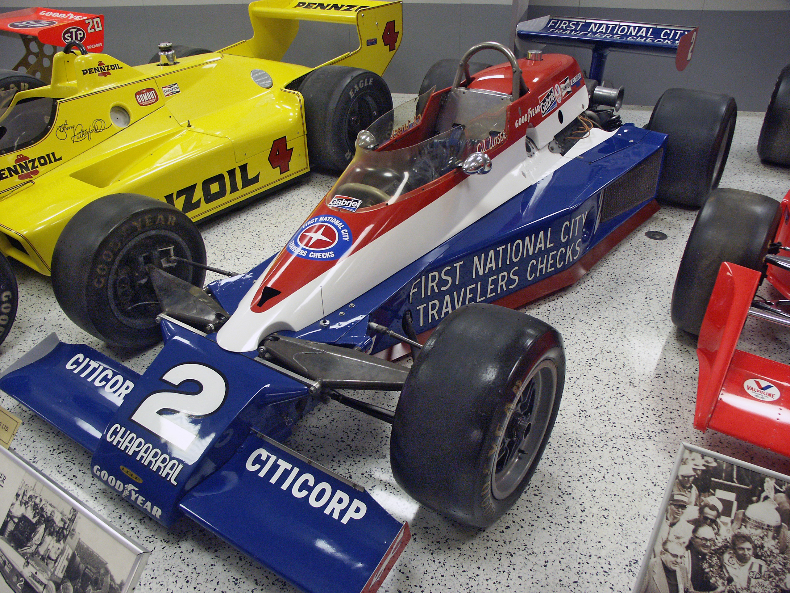 Al Unser Sr. won the 1978 Indianapolis 500 in this Lola T500-Cosworth.